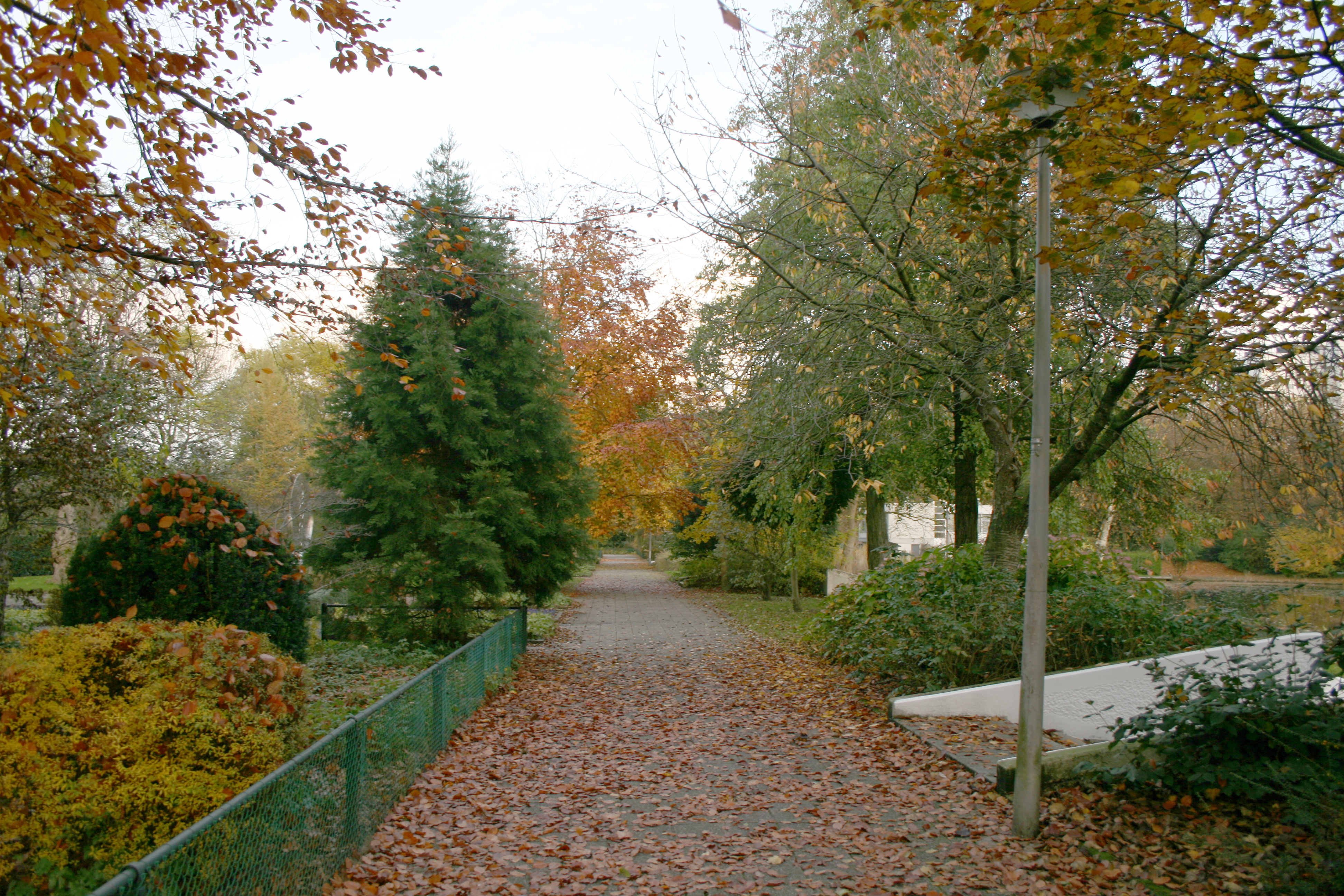 The Gijsbrecht van Aemstelpark is a park in South Amsterdam.